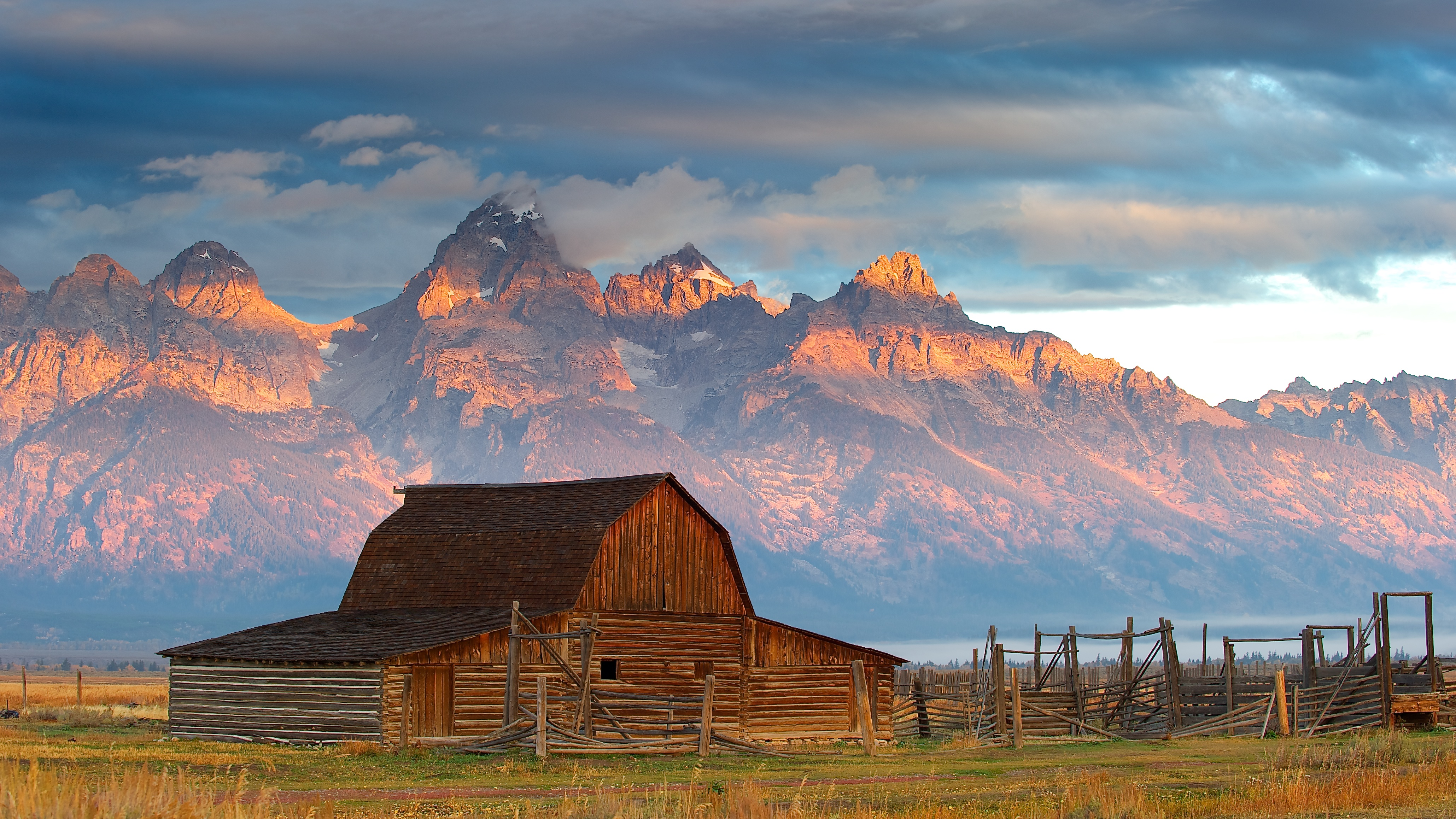 Shots from the Fall Photography at the Summit workshop in October 2010